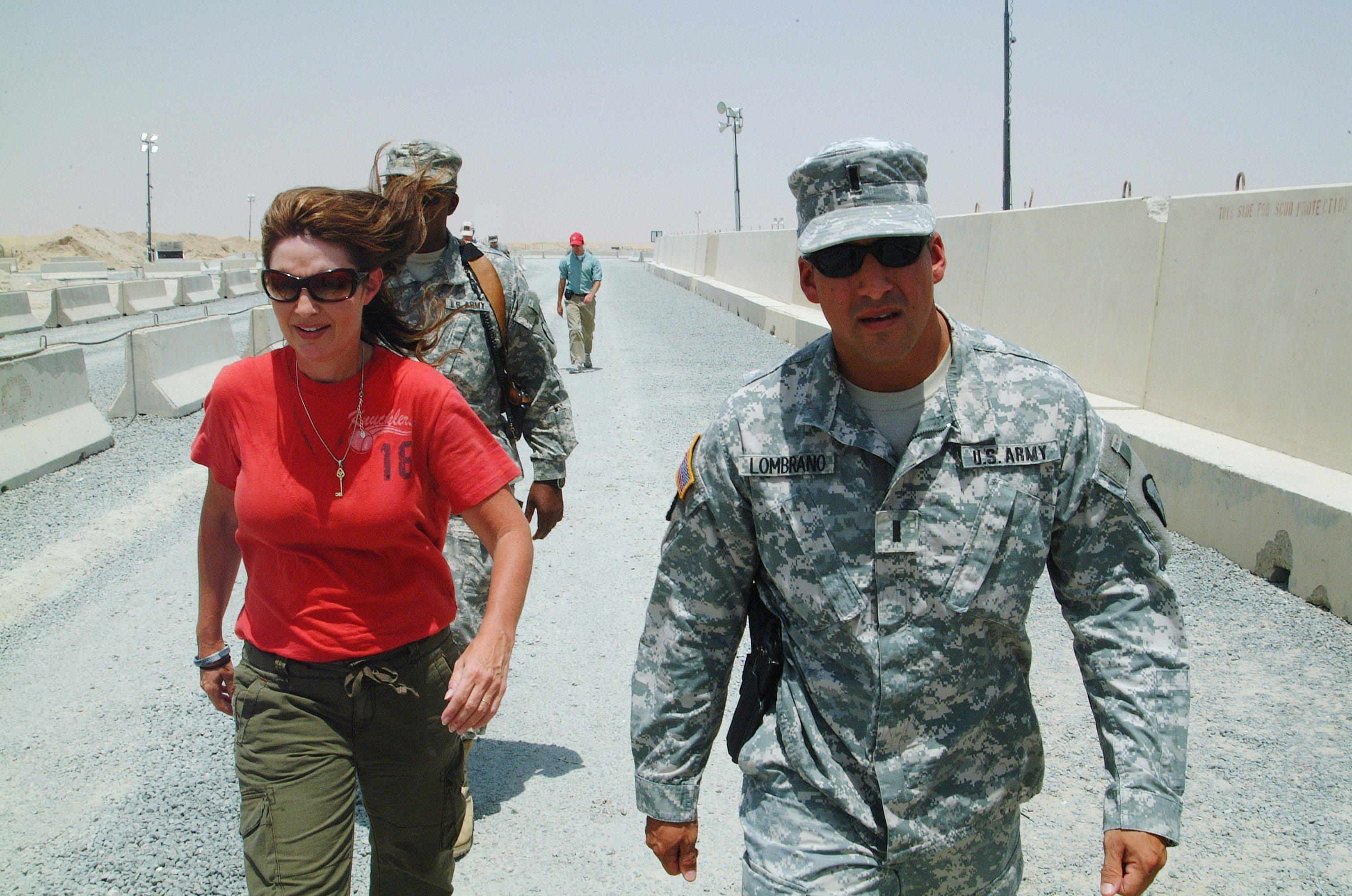 CAMP BUEHRING, Kuwait (July 26, 2007)- During her recent visit to Kuwait , Gov. Sarah Palin accompanied 1st Lt. John Lombrano on a tour of facilities on a military base. Lombrano is commander of Bravo Company, 3rd Battalion, 297th Infantry, Alaska Army National Guard. Bravo Company provides security for the base. Lombrano lives in Anchorage, Alaska.